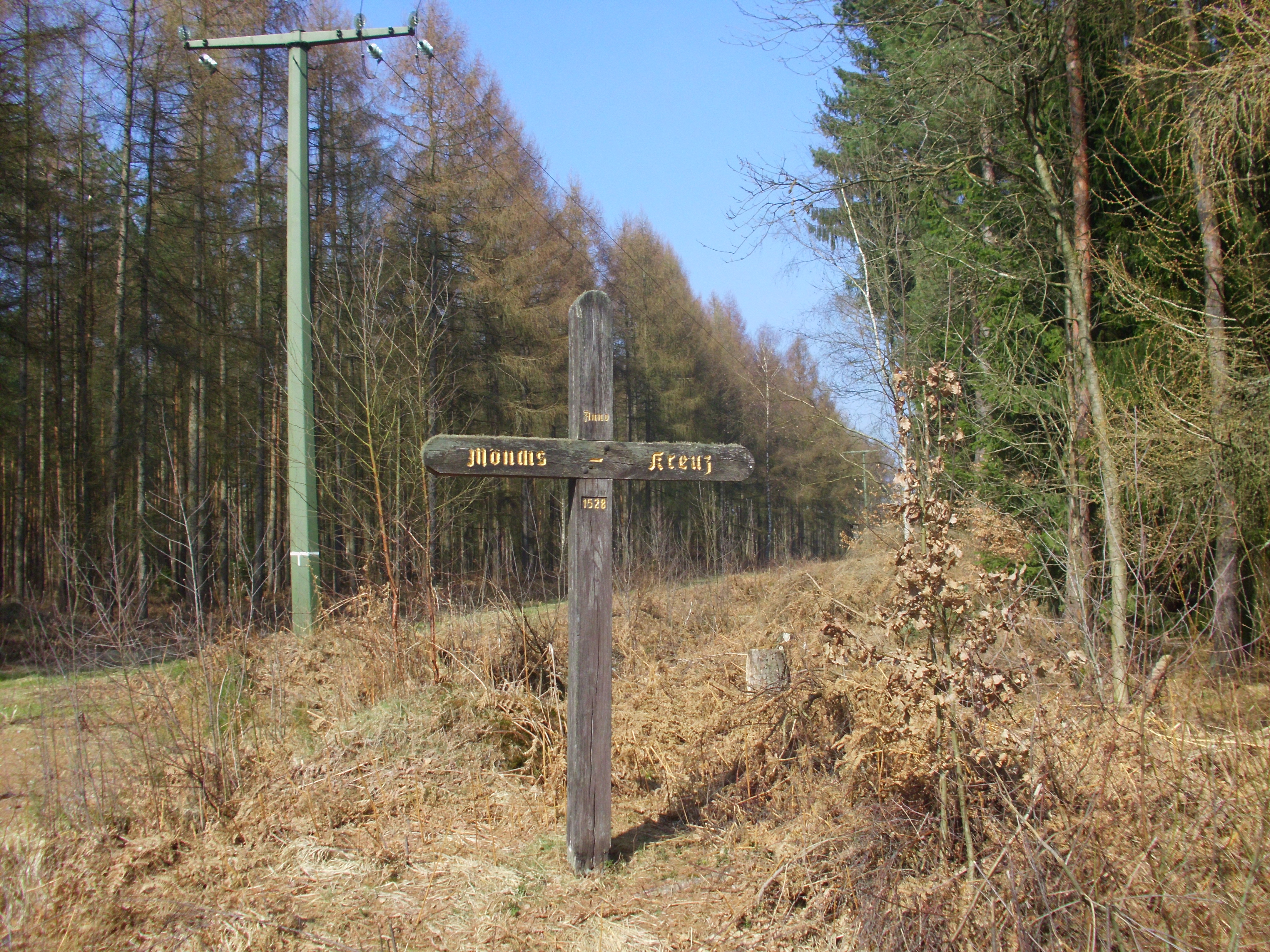 The Mönchskreuz near Schönewörde